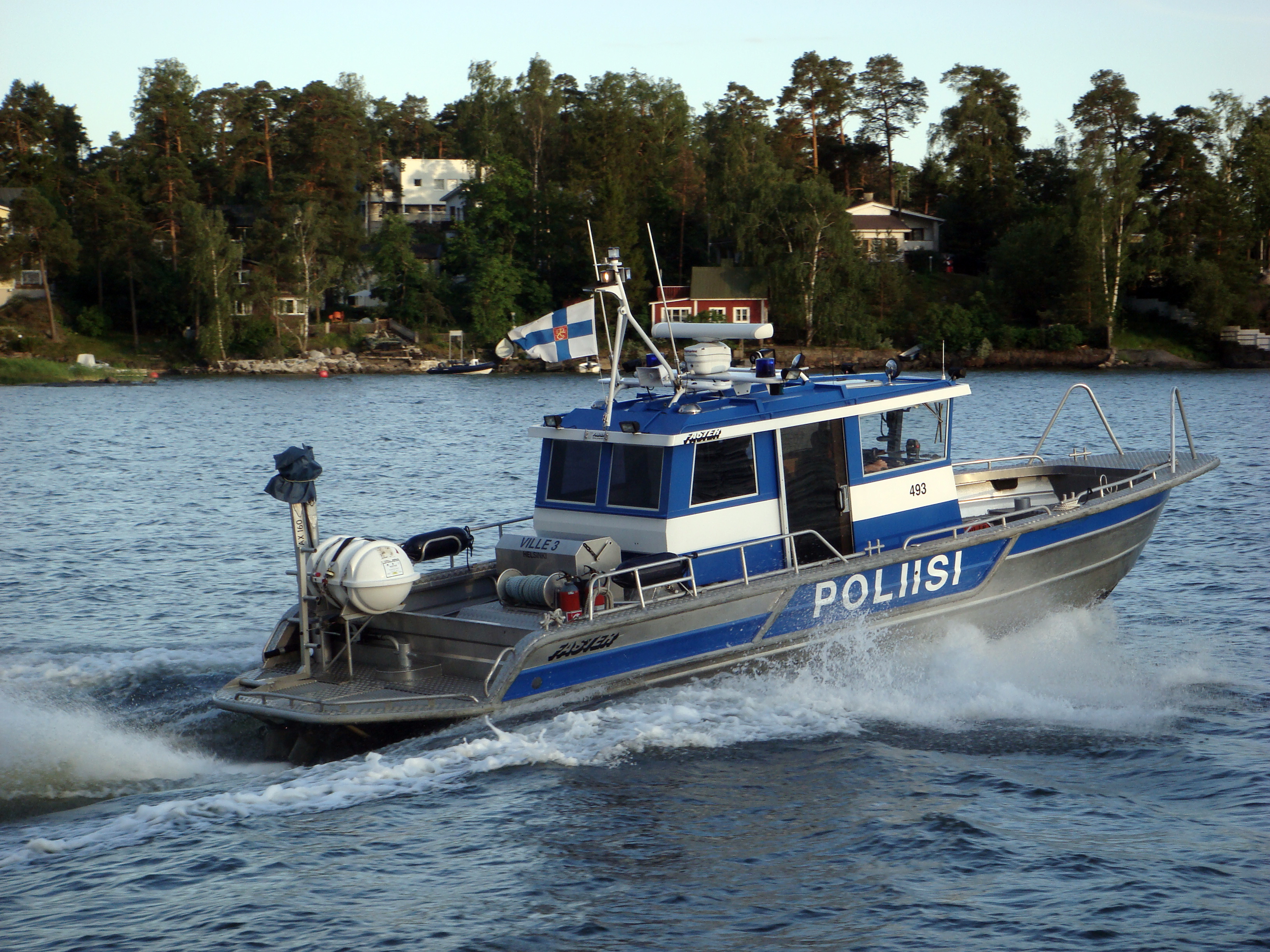 Helsinki Police Department's patrol boat, Ville 3 (designation 493), speeding away.